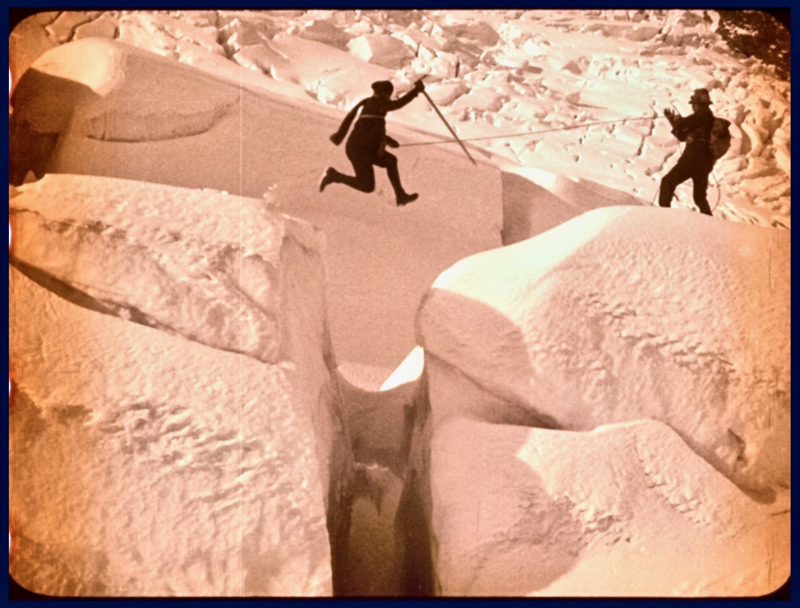 Jump over a crevasse. Still picture from the silent movie Im Kampf mit dem Berge by director Arnold Fanck (1889–1974), camera: Sepp Allgeier (1895–1968) and Arnold Fanck, music: Paul Hindemith (1895–1963). Producer: Berg- und Sportfilm G.m.b.H., Freiburg im Breisgau, Germany.